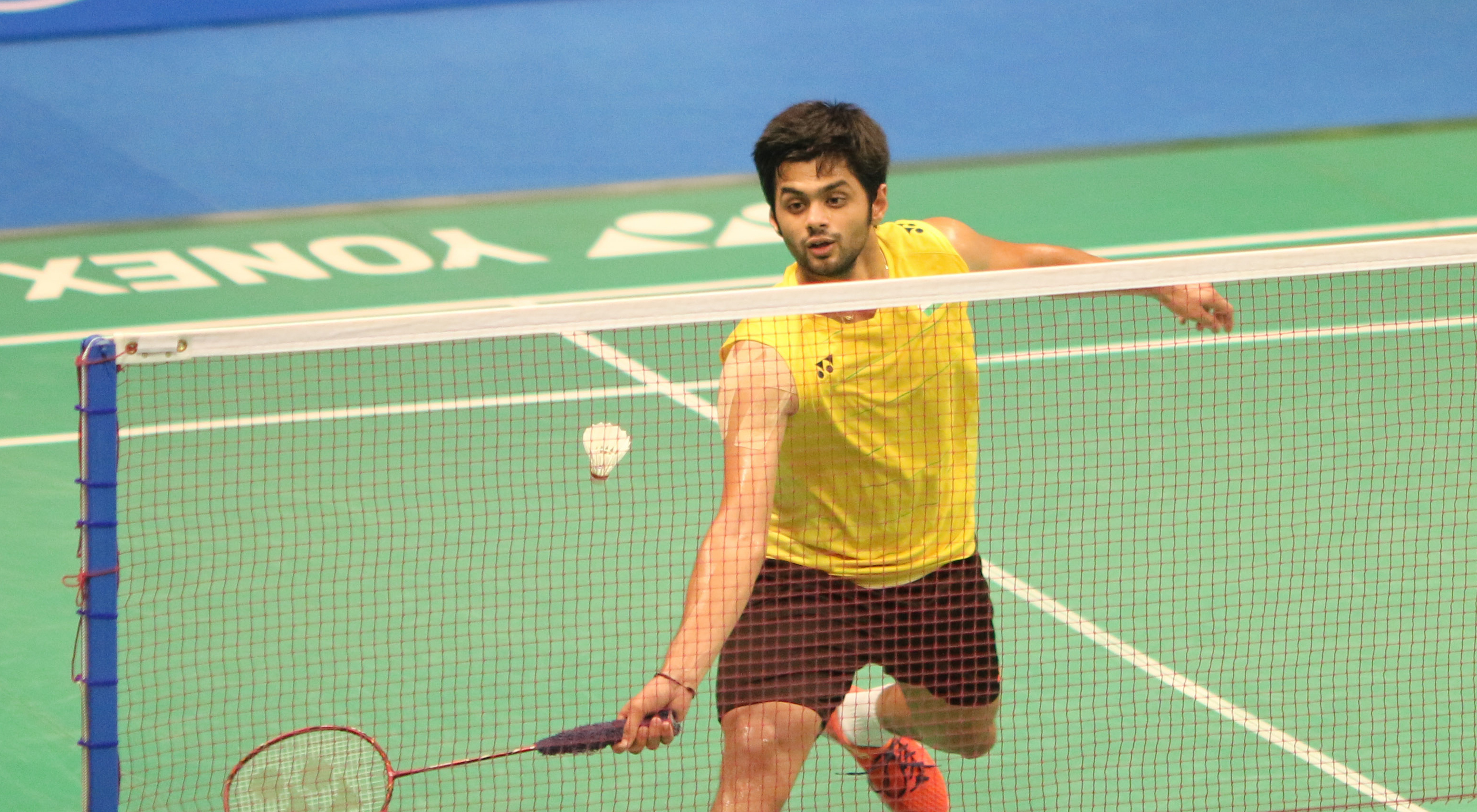 Sai Praneeth at Indonesia Open 2017 badminton tournament